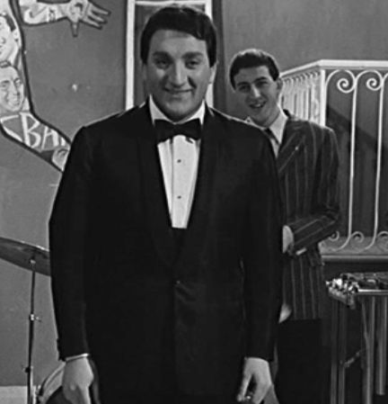 screenshot from the series Canzonissima (1961)